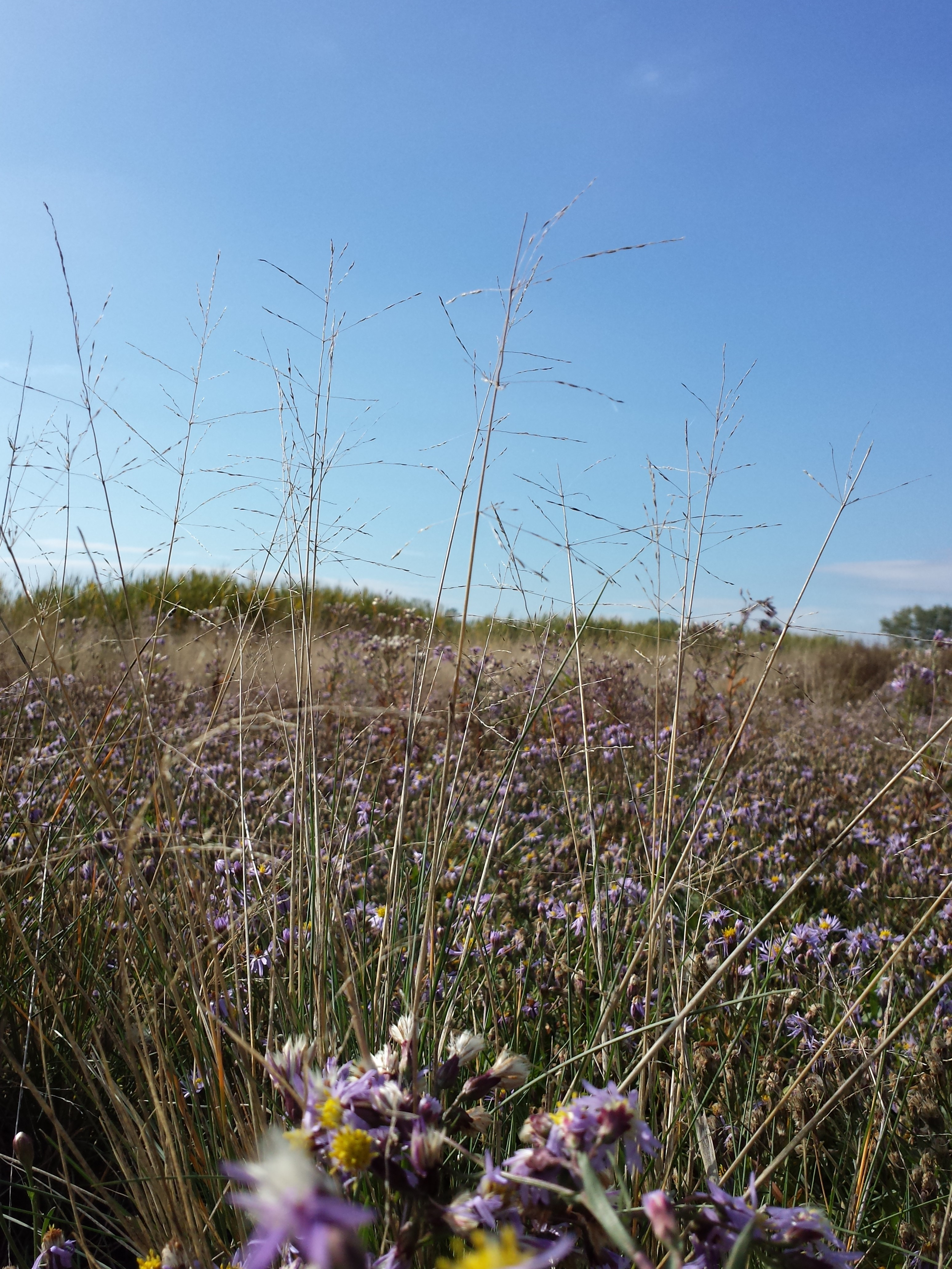 Habitus Taxon: Puccinellia peisonis (sensu Fischer et al. EfÖLS 2008; det. M. A. Fischer 2013-10-12) Location: salty meadow near Podersdorf, district Neusiedl am See, Burgenland, Austria - ca. 120 m a.s.l. Habitat: salty meadow